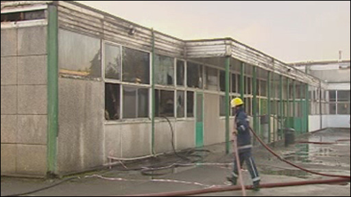 Aftermath of Archbishops school fire